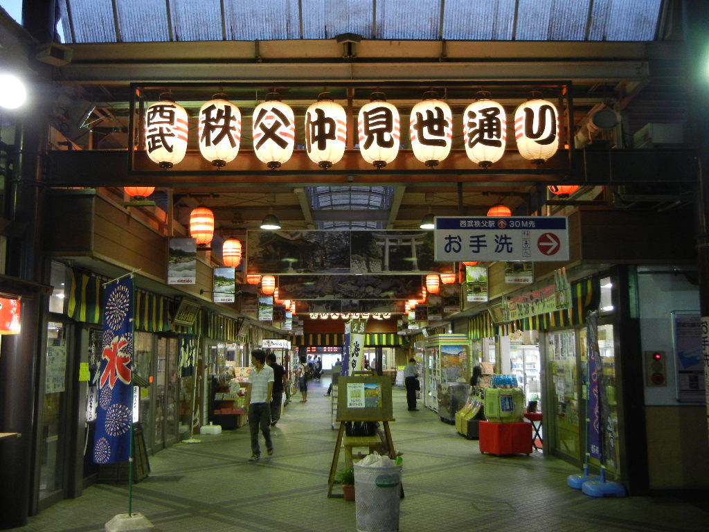 Chichibu-Nakamise-Street, Chichibu.